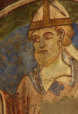 Saint Cuthbert of Lindisfarne.